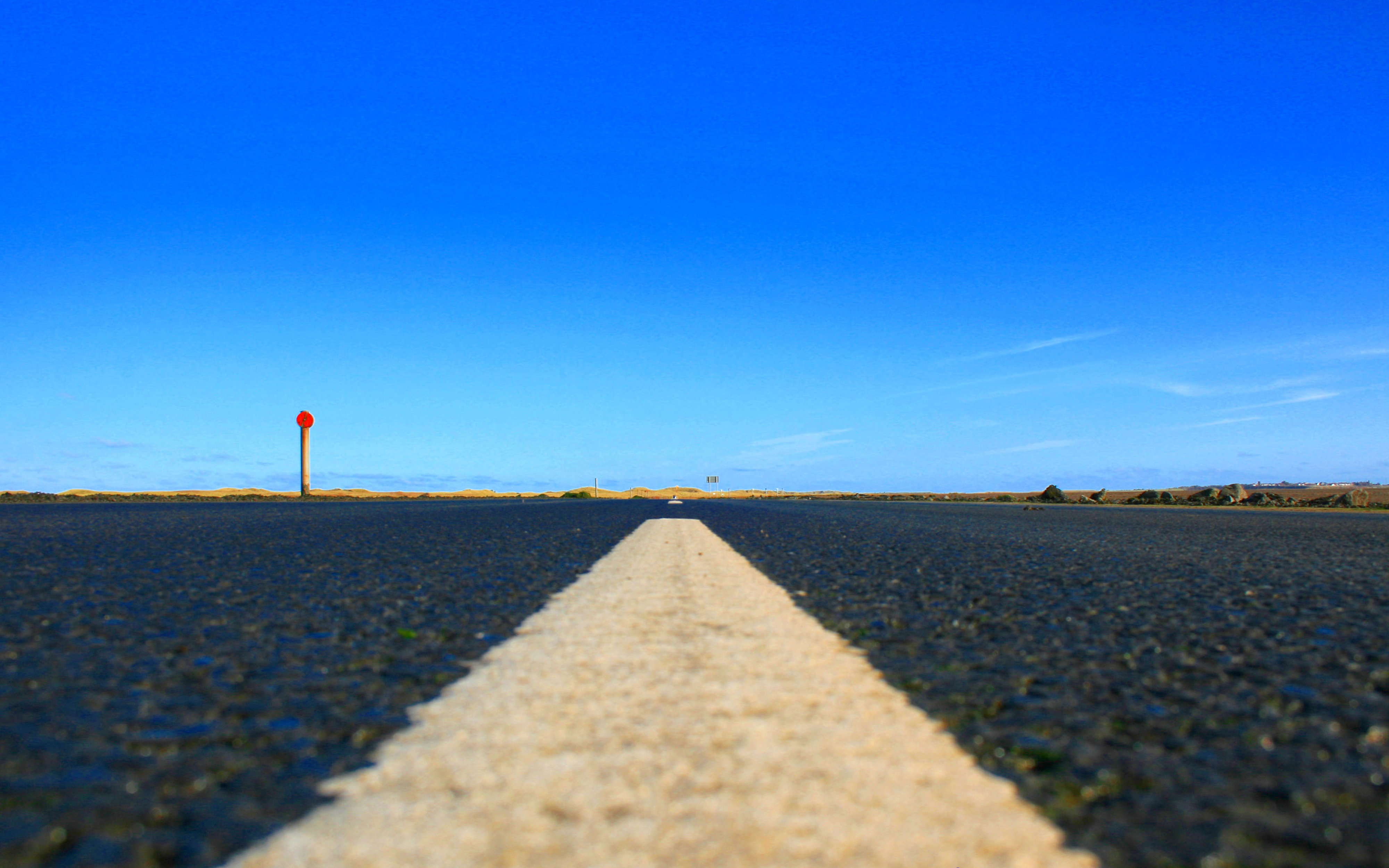 Lindisfarne causeway, Holy Island, Northumberland